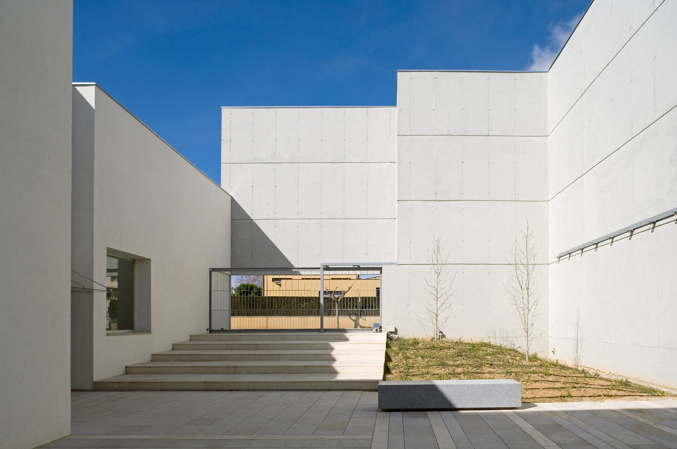 Interior quad of Ribera d'Ebre's Historical Archive build between 2004 and 2005